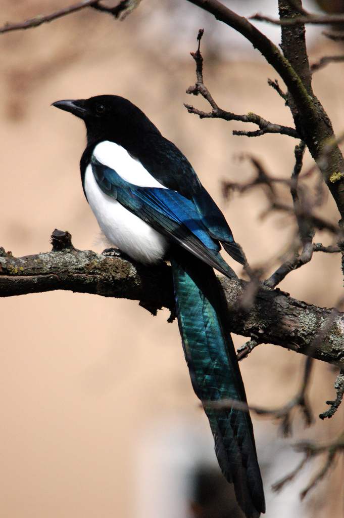 A European Magpie Pica pica fennorum in Helsinki, Finland.